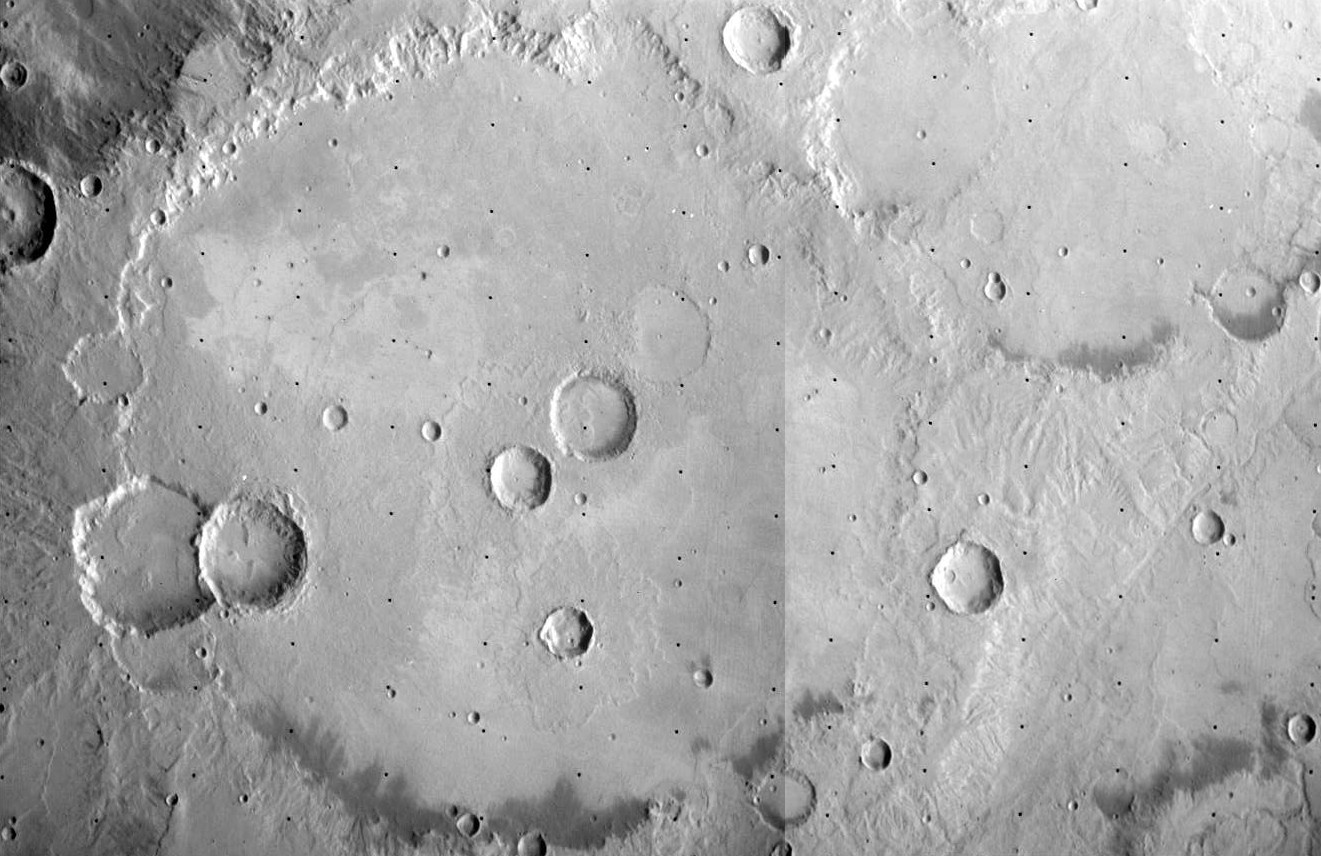 Newcomb crater on Mars. Mosaic of two Viking 1 images from camera A (579A53, 579A55). Red filter was used for these images. Resolution is about 211 m/pixel. North is in upper right. Statistics below are for the left image: Emission Angle: 16.3 Incidence Angle: 66.9 Latitude: -24.4 Longitude: 0.5 Phase Angle: 81.6